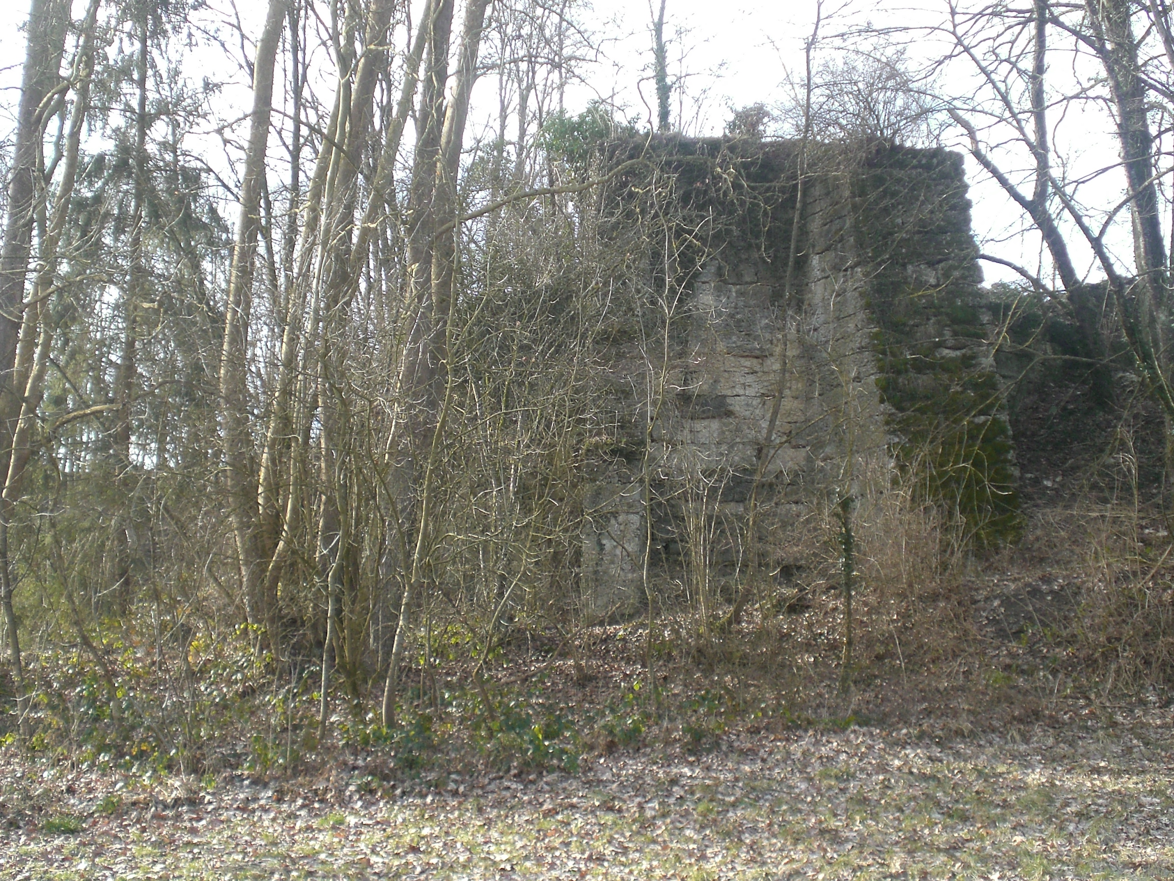 Battrans Ancier Franche Comté